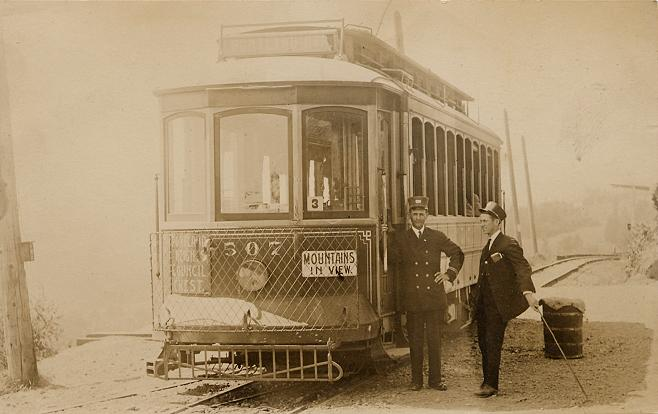 Motorman Chester and Conductor Rudolph with car 507 near the end of the Portland Heights-Council Crest Line about 1910